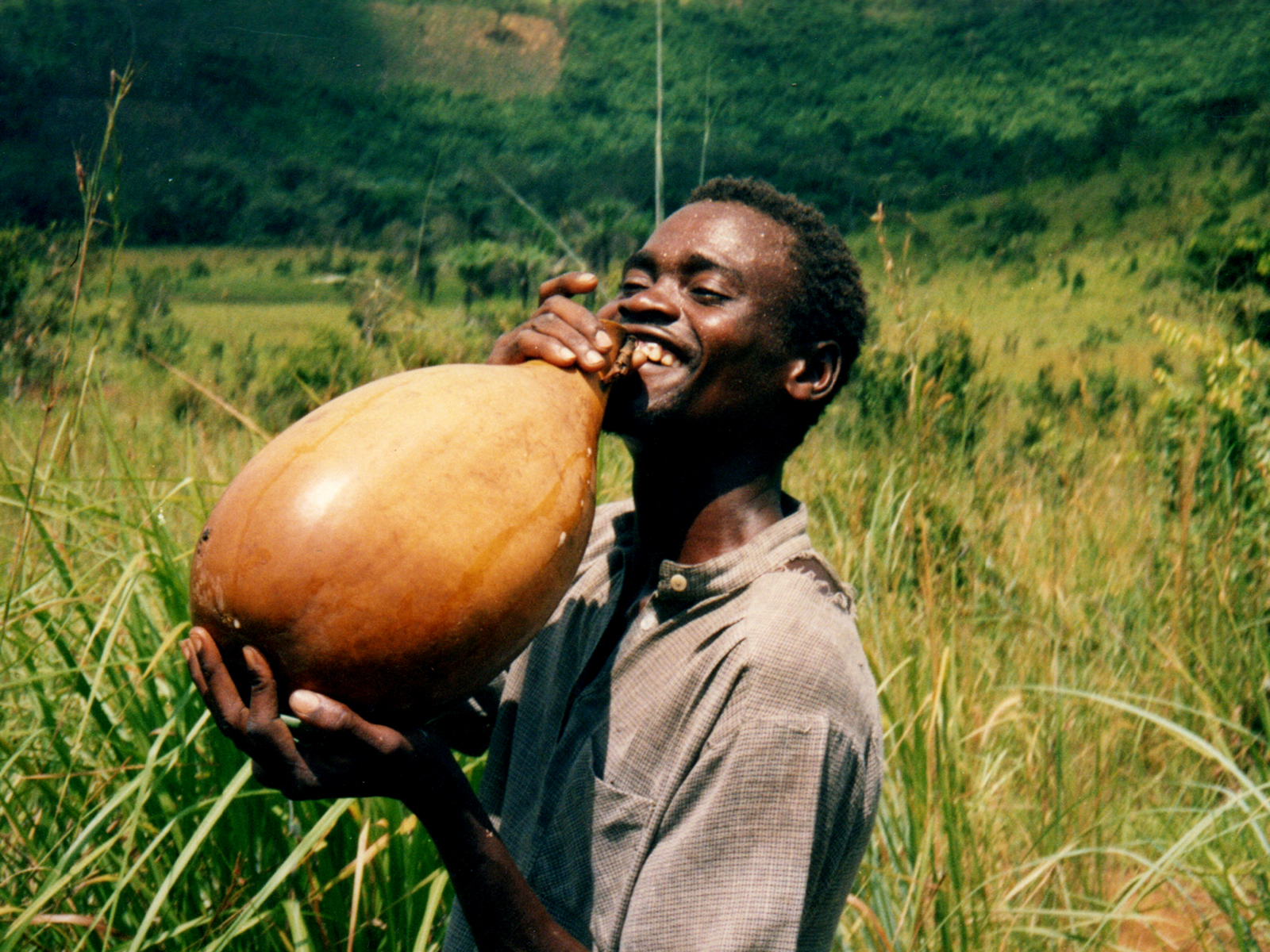 Drinking palm wine from a calabash. See Manga Village on Google Maps here